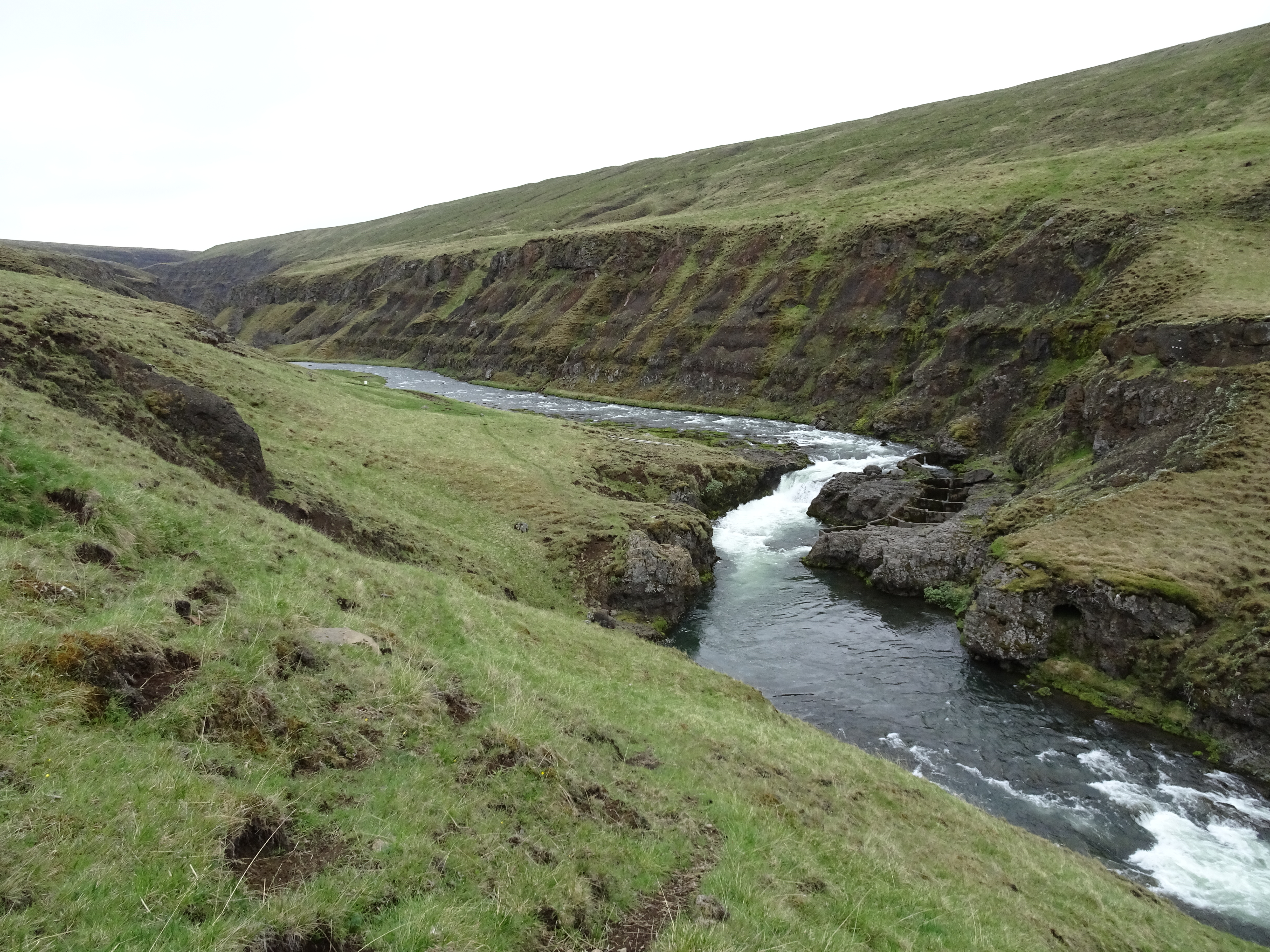 The Stekkjarfoss, a waterfall in the Vatnsdalsá river in Northern Iceland.